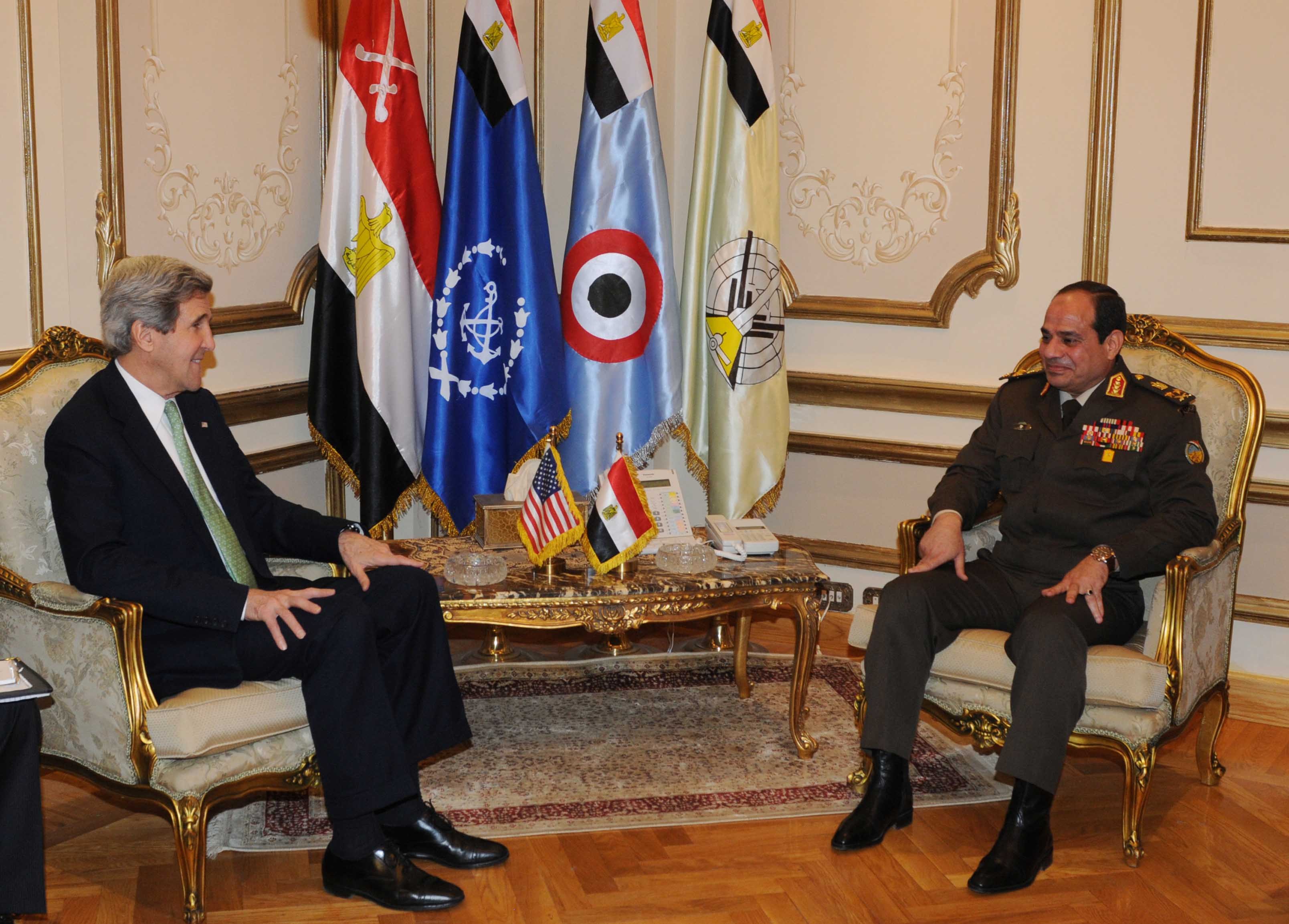 U.S. Secretary of State John Kerry meets with Egyptian Defense Minister Abdul Fatah Khalil al-Sisi in Cairo, Egypt on March 3, 2013. [State Department photo/ Public Domain]